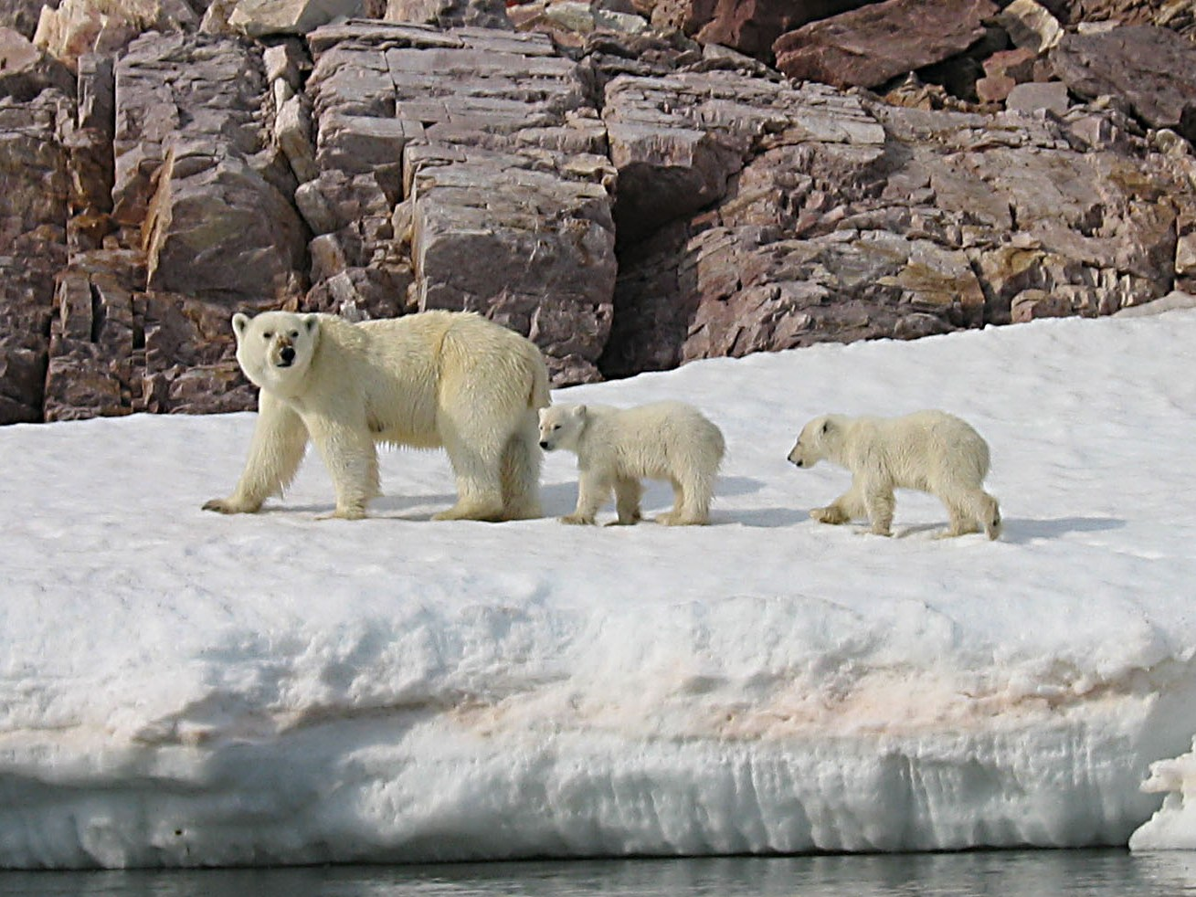 Polar Bear Mother and Cubs Detail